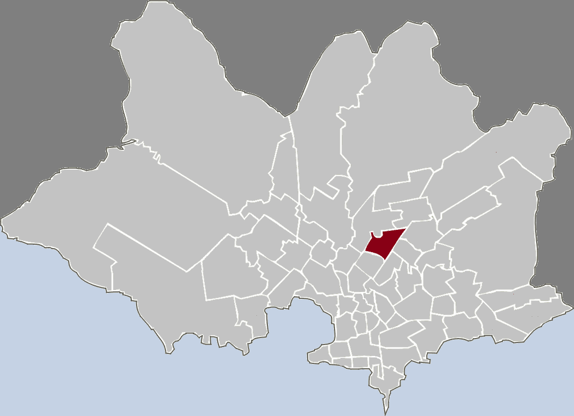 Map highlighting the given barrio in Montevideo.